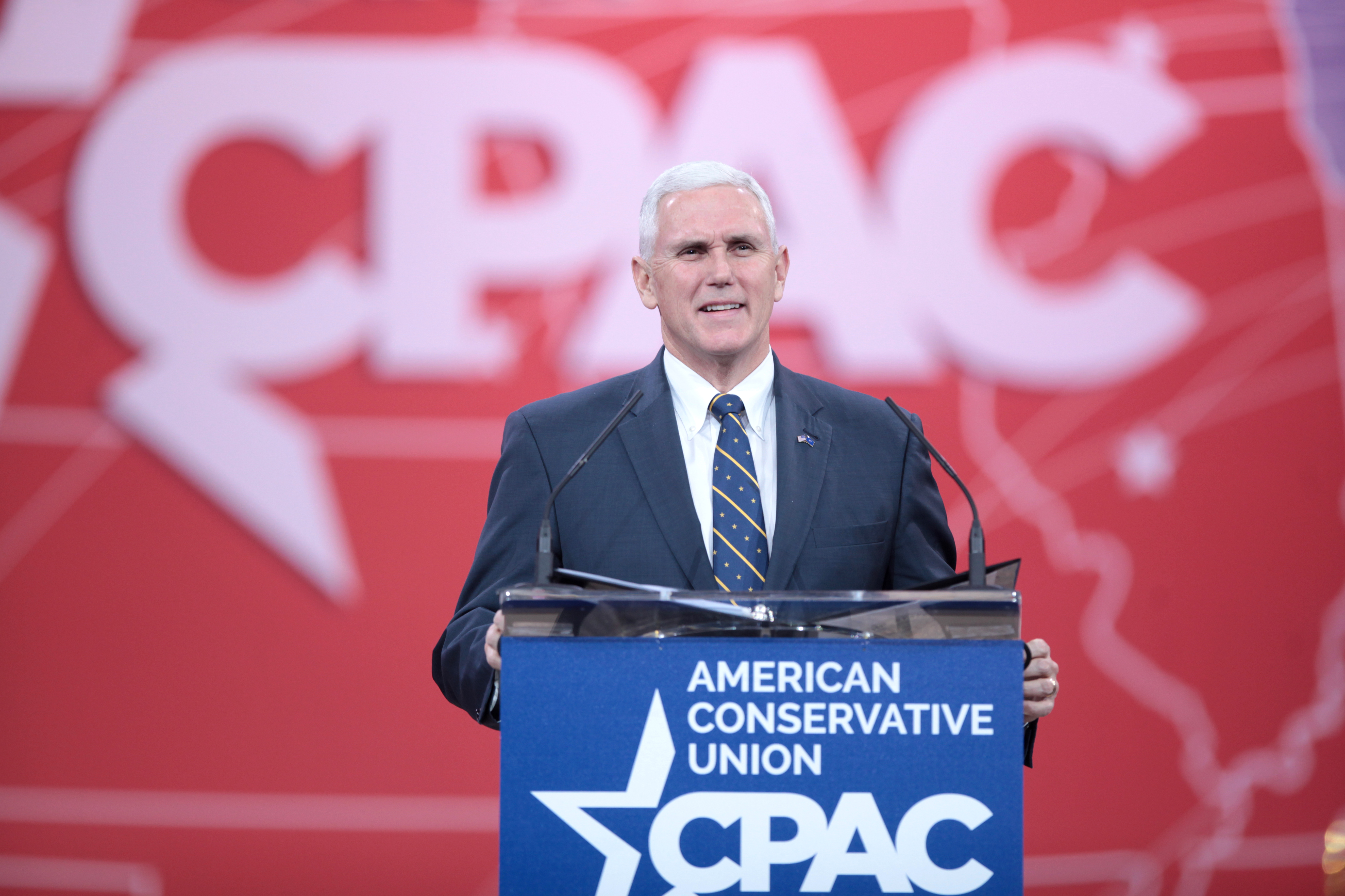 Governor Mike Pence of Indiana speaking at the 2015 Conservative Political Action Conference (CPAC) in National Harbor, Maryland.